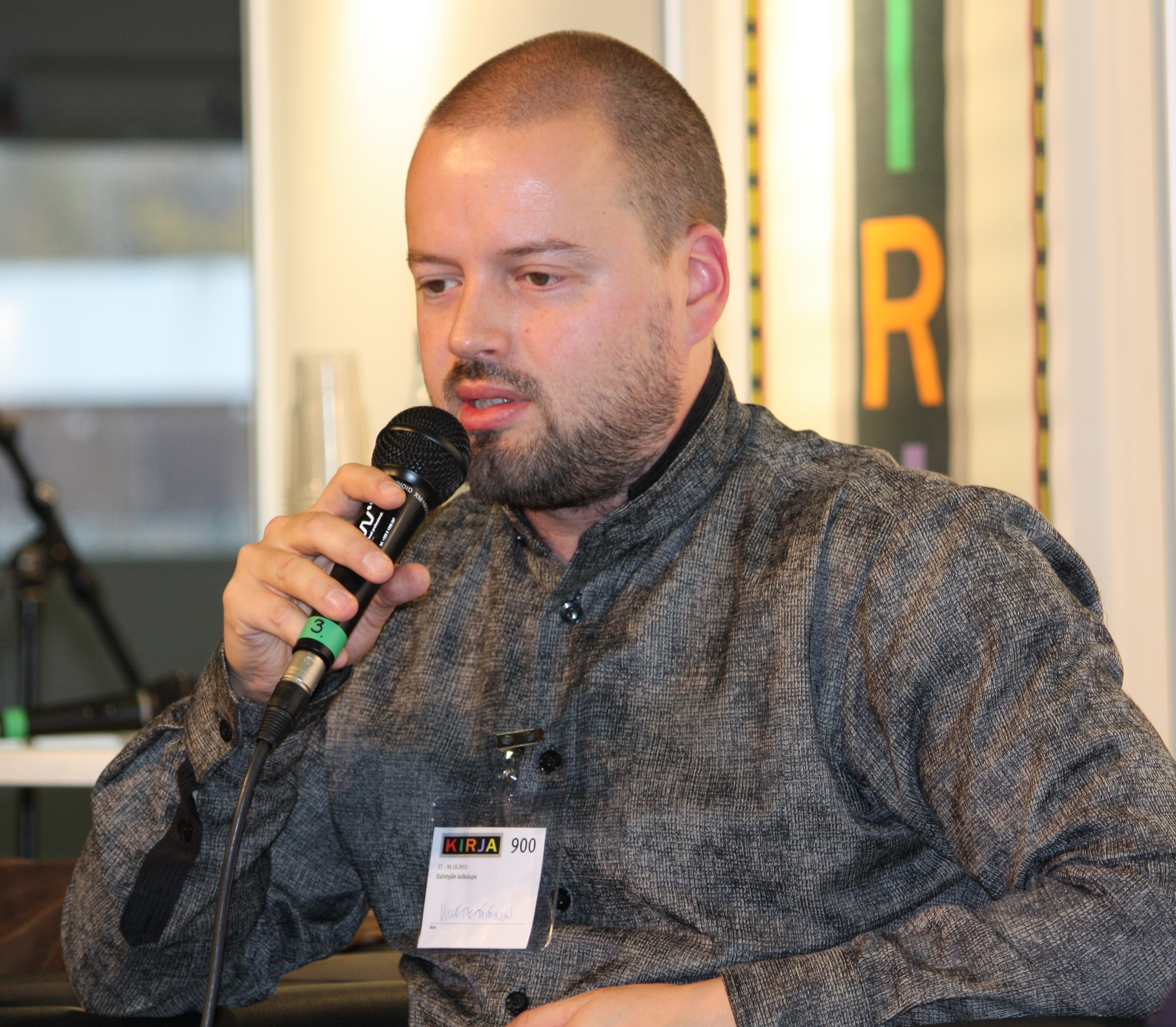 Finnish graphic designer, illustrator and comics artist Ville Tietäväinen at Helsinki Book Fair 2011